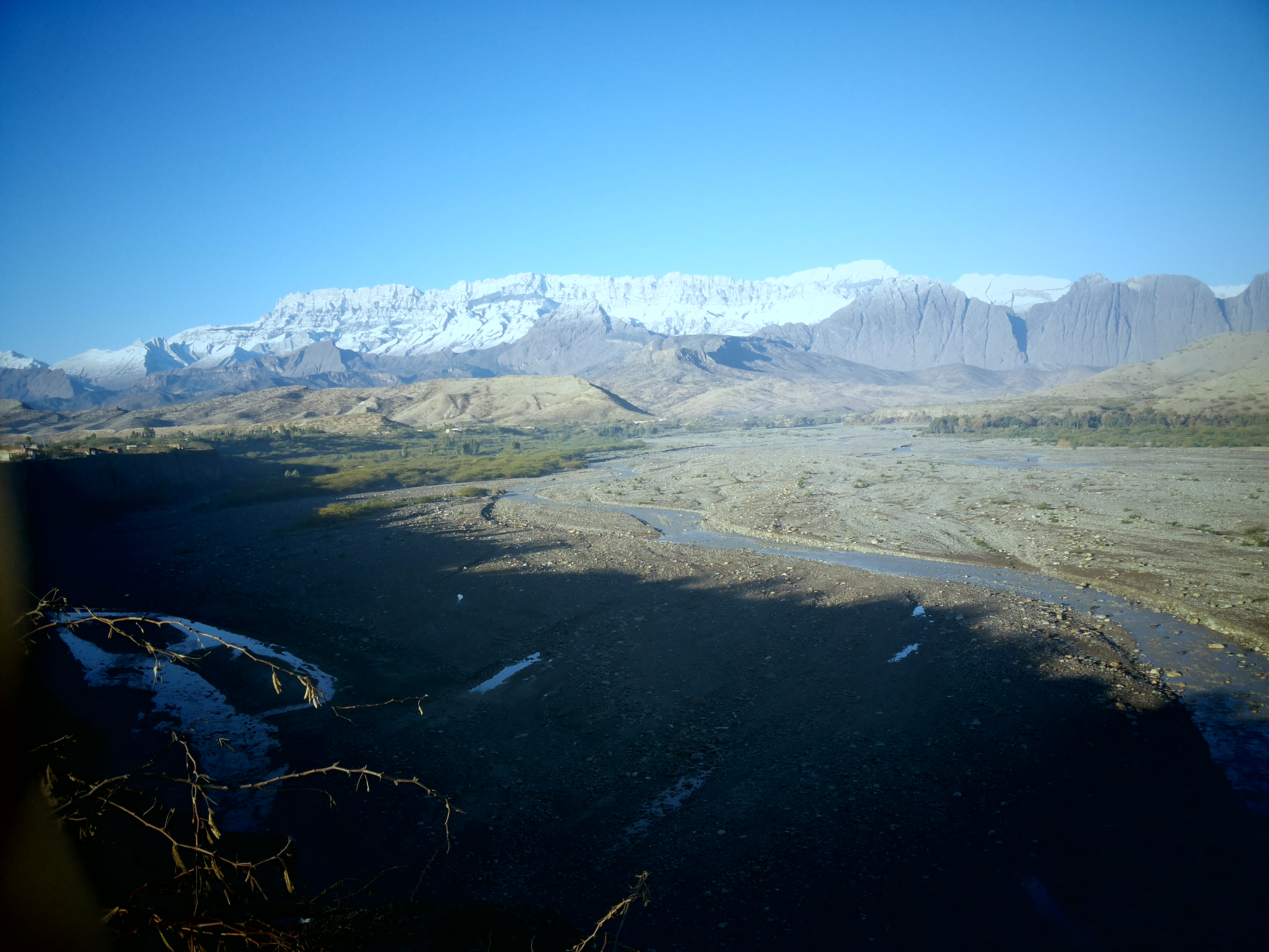 koi suleman